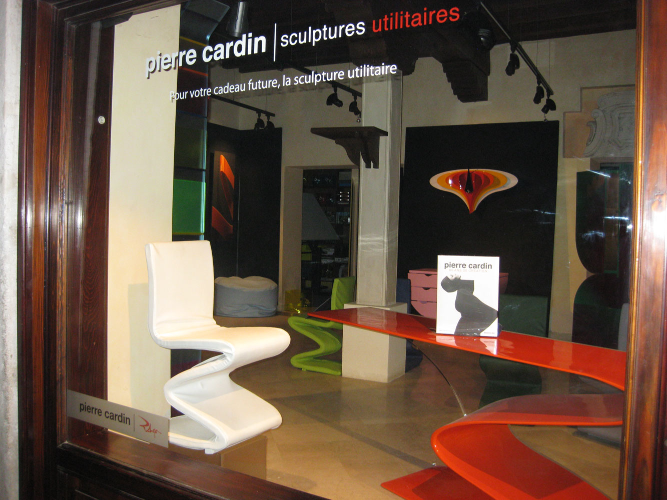 Showroom Sculptures Utilitaires Venice.